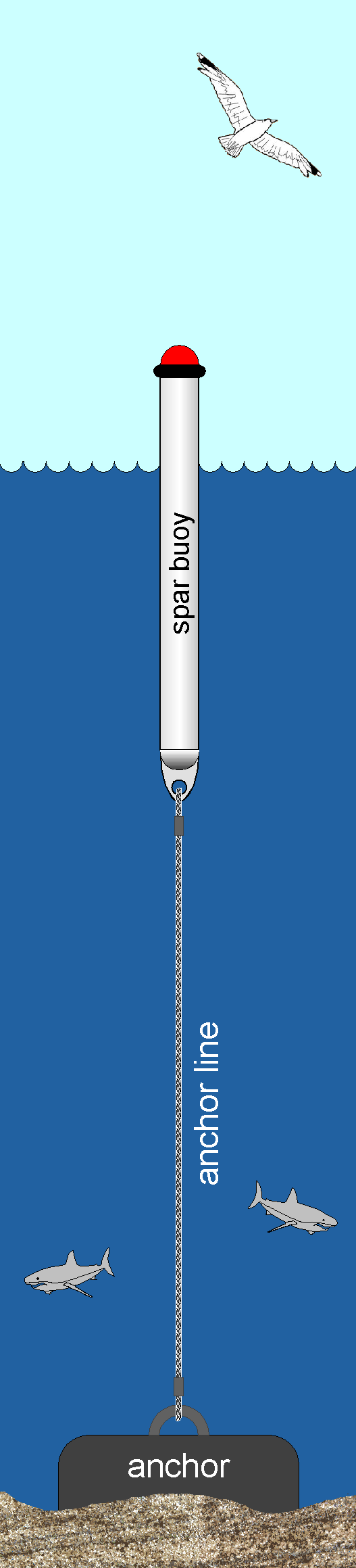 sketch of an anchored spar buoy